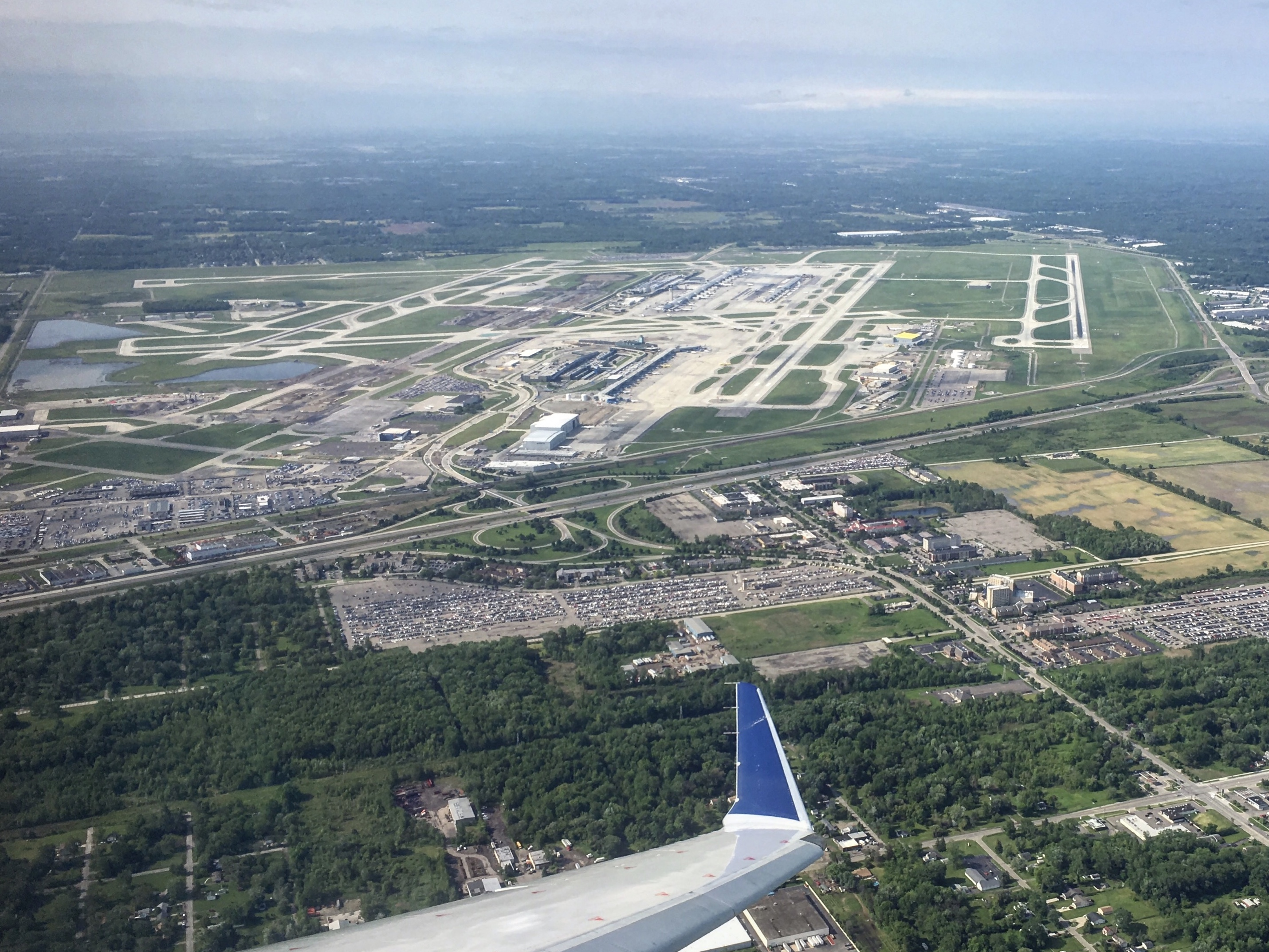 View of DTW in June 2019 from a departing Delta Connection/Endeavor Air CRJ-900. Note runway 3L/21R was undergoing reconstruction at that the time.